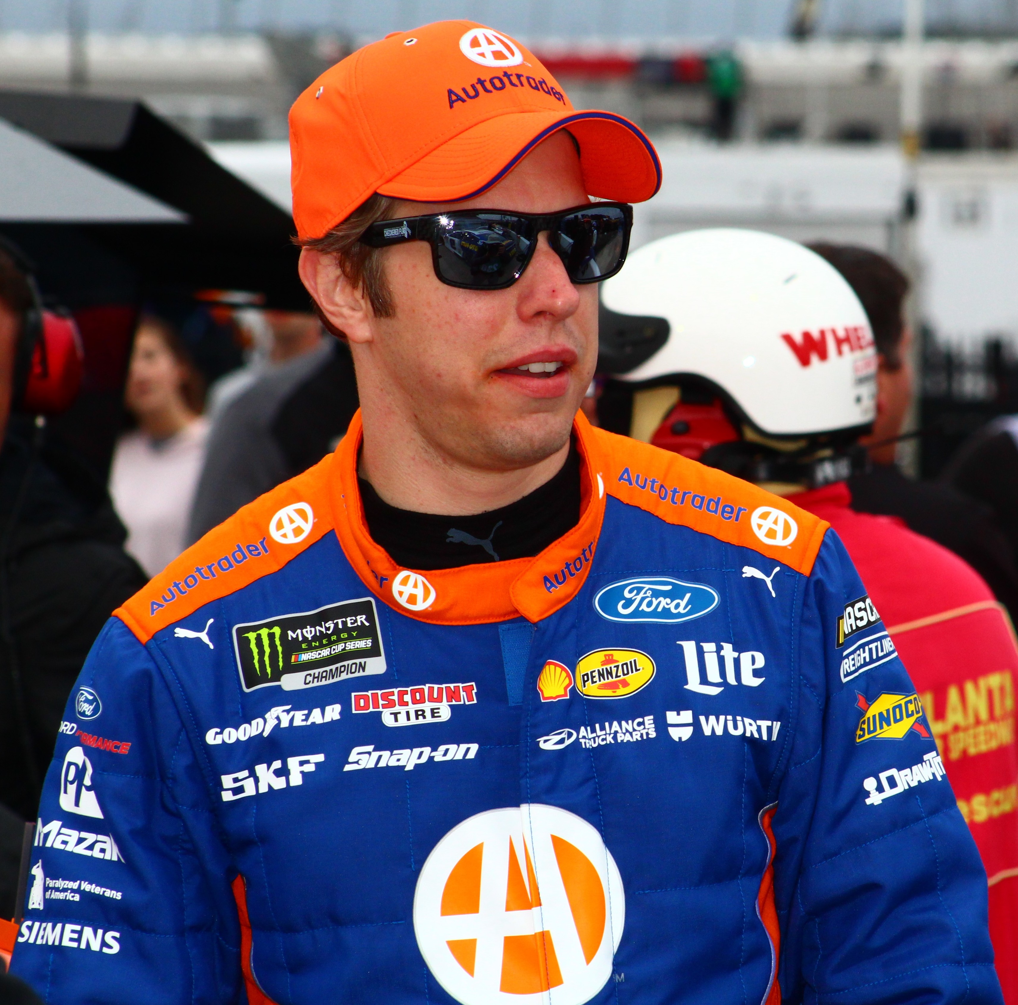 2019 Folds of Honor QuikTrip 500